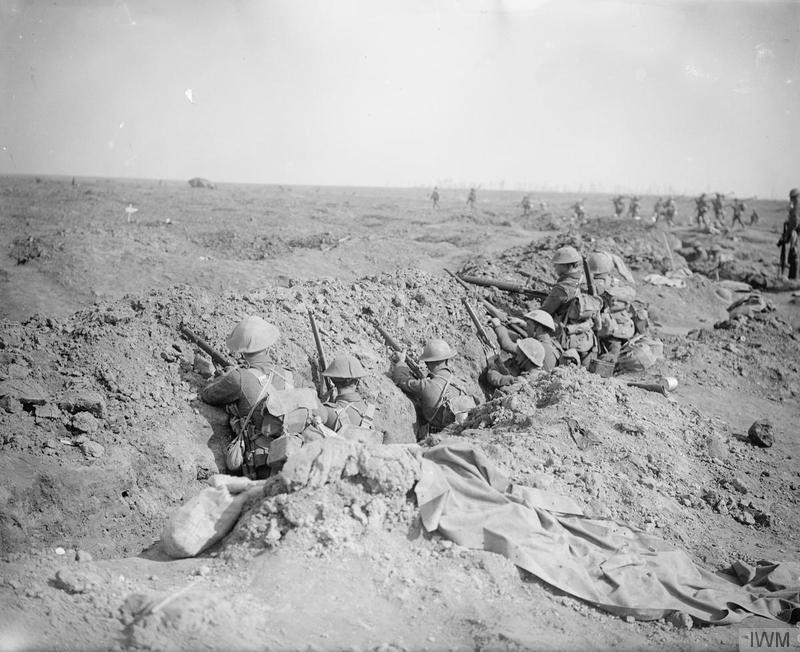 The Battle of the Somme, July-november 1916 Battle of Guillemont 3-6 September 1916. British infantry waiting their turn to advance. A tank moving in distance. Guillemont, September 1916.